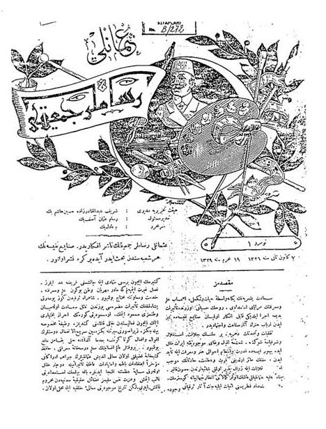 Front page of the newspaper of Ottoman Artists Society - 19 Muharram 1329 = 20 January 1911